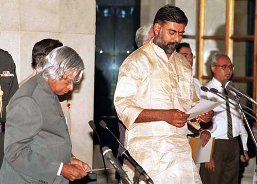 The President Dr. A.P.J. Abdul Kalam administering the oath of office to Shri Prahlad Singh Patel as a Minister of State at a Swearing-in-Ceremony in New Delhi on May 24, 2003 (Saturday).